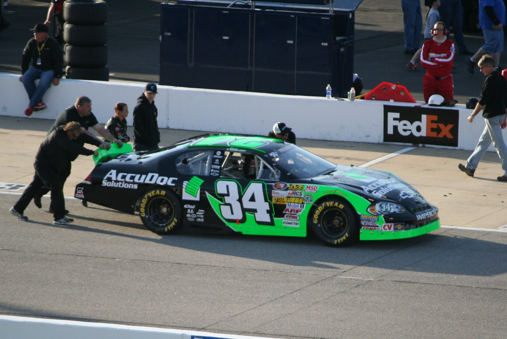 Kenzie Ruston's No. 34 Chevrolet is pushed on pit road at Richmond International Raceway before the NASCAR K&N Pro Series East Blue Ox 100, April 25 2013.